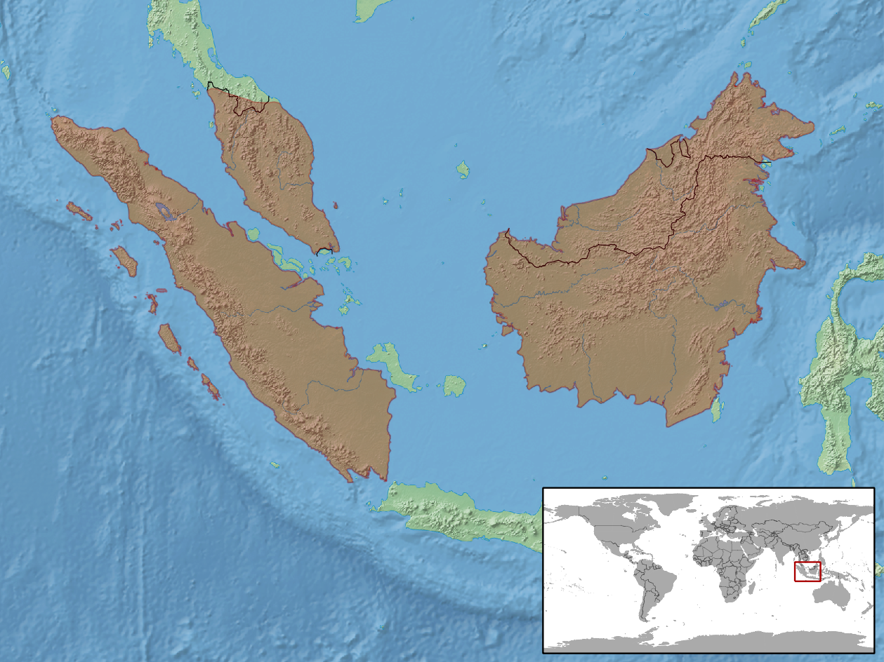 geographic distribution of Gonocephalus grandis (Native: Indonesia; Lao People's Democratic Republic; Malaysia; Singapore; Thailand; Viet Nam)